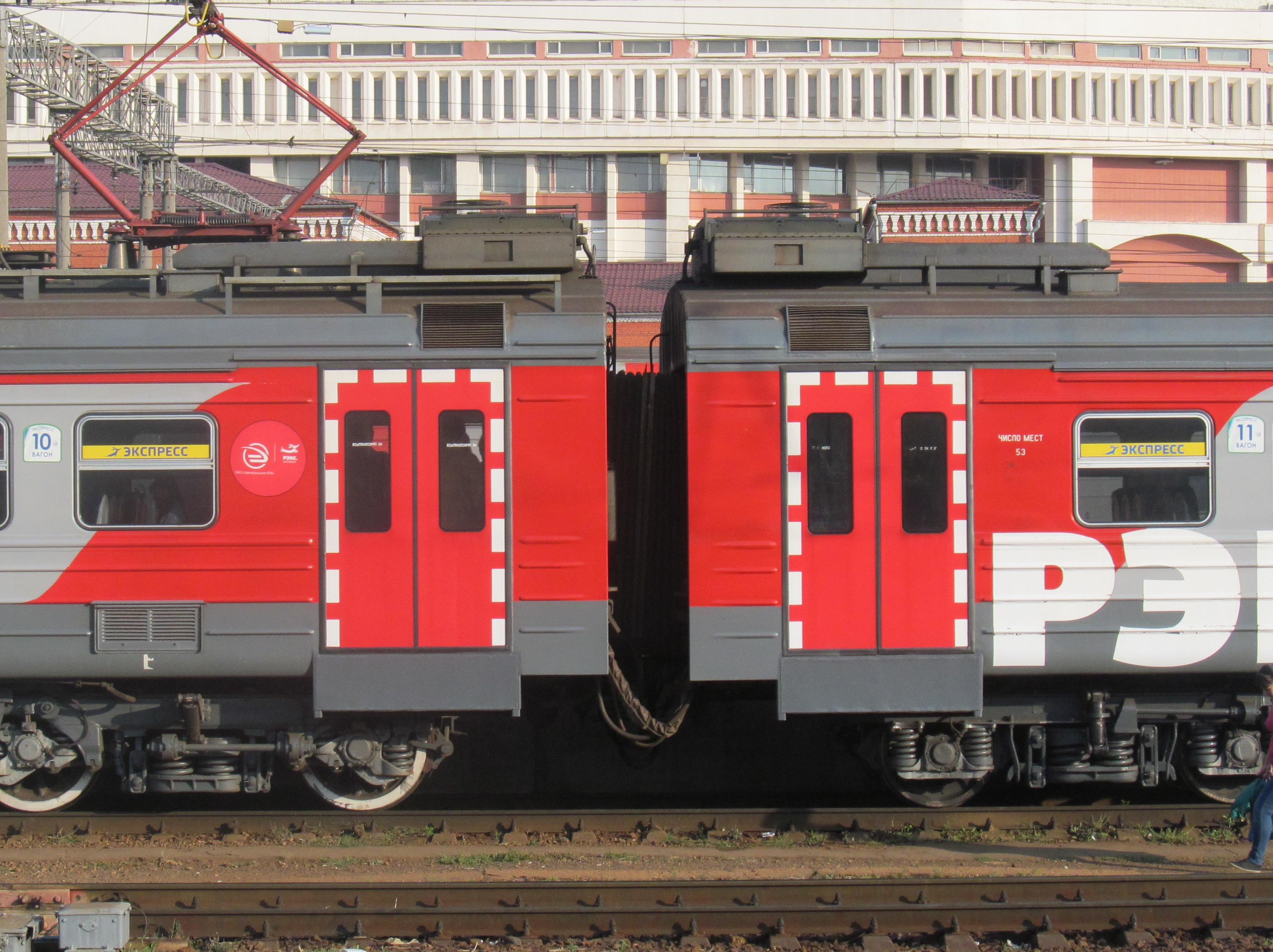 ED4M-0465 EMU. Inter-car gangway and entry doors